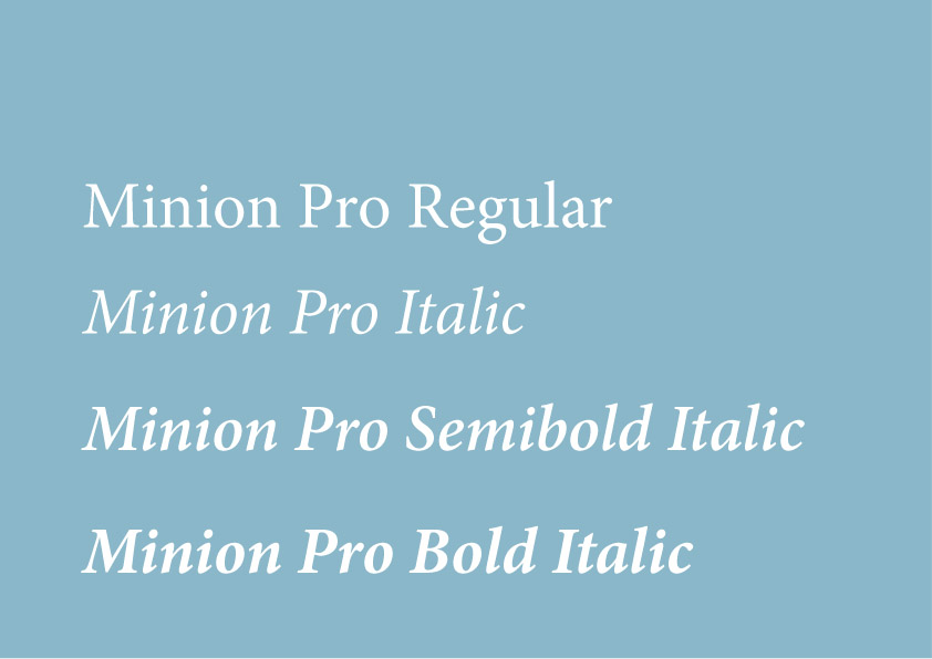 Minion Pro typeface samples.